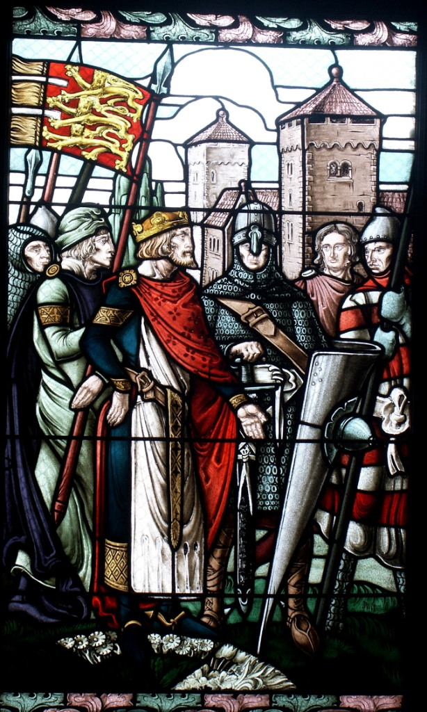 Stained glass window by Léo Schnug in the Musée historique de Haguenau